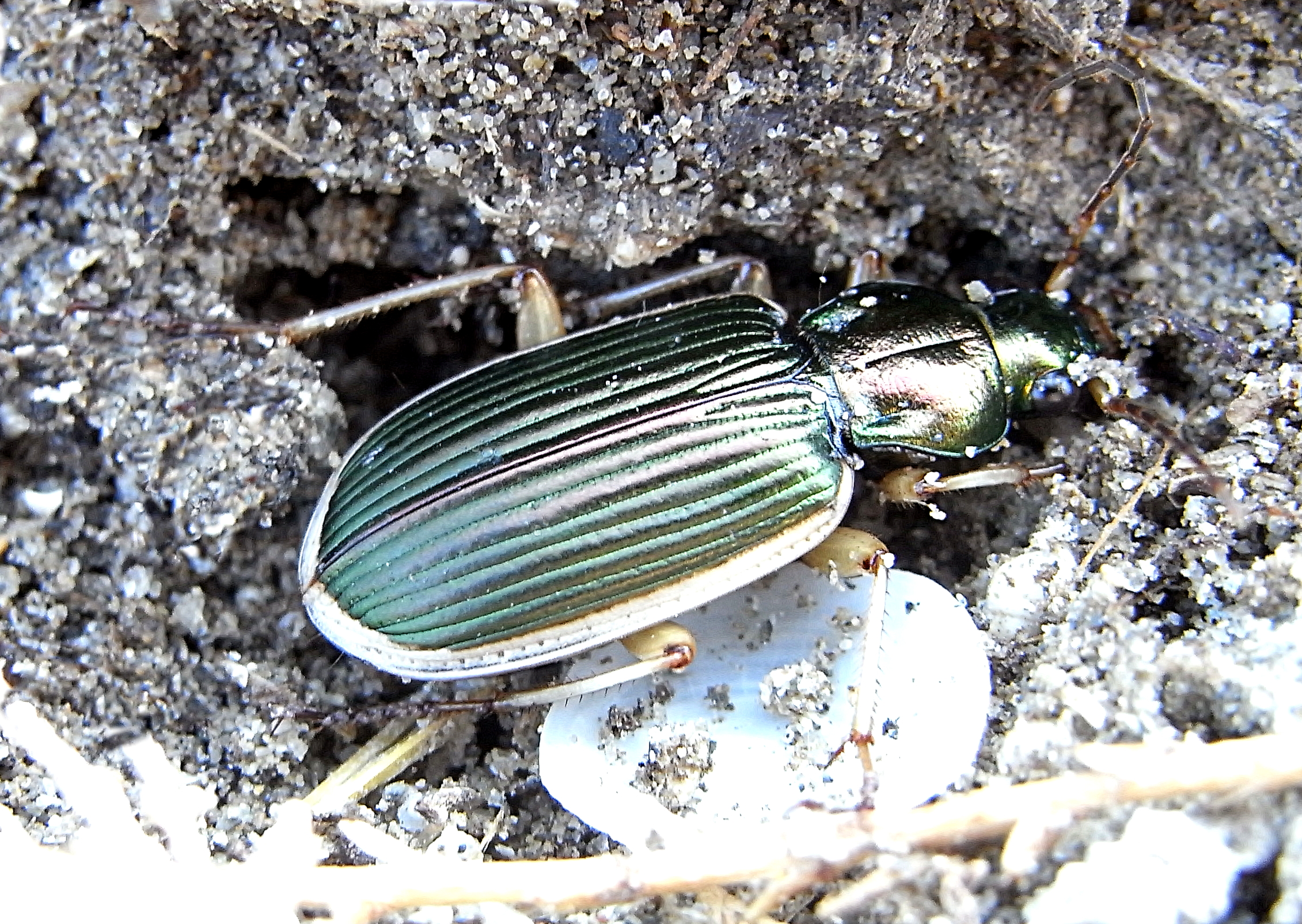 Chlaenius spoliatus Ricoh R8